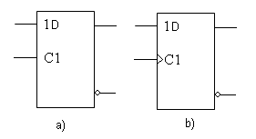 Bistable JK MS